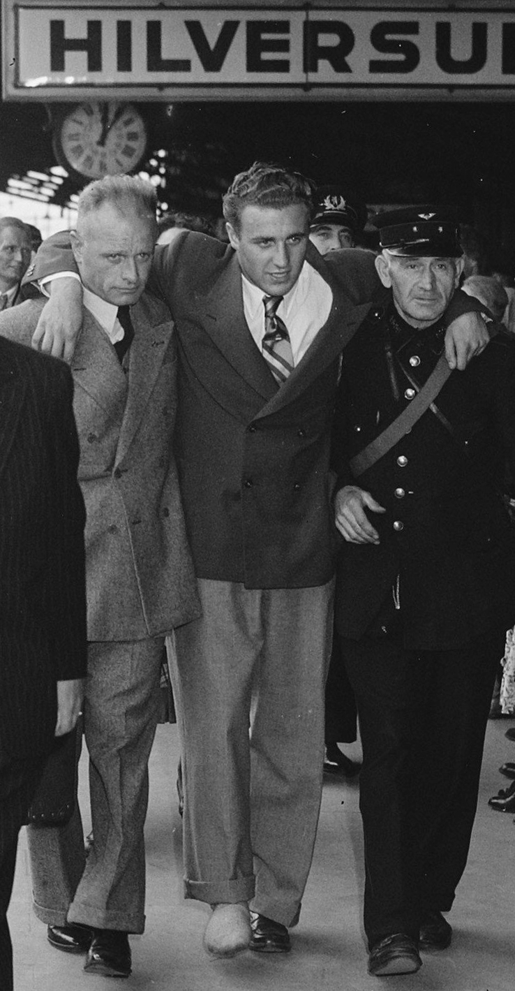 Nel van Vliet honored in Hilversum. Coach Jan Stender helps water polo player Joop Rohner.